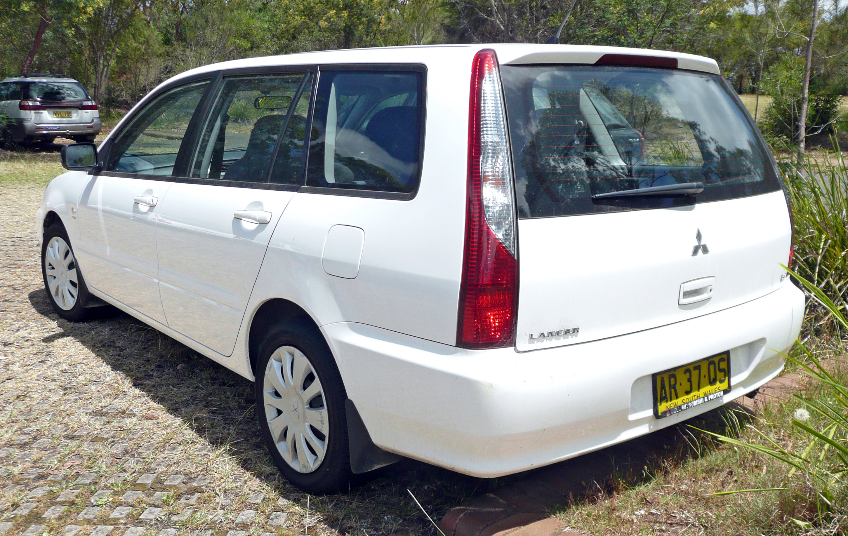 2006–2008 Mitsubishi Lancer (CH MY07) ES station wagon. Photographed in Audley, New South Wales, Australia.